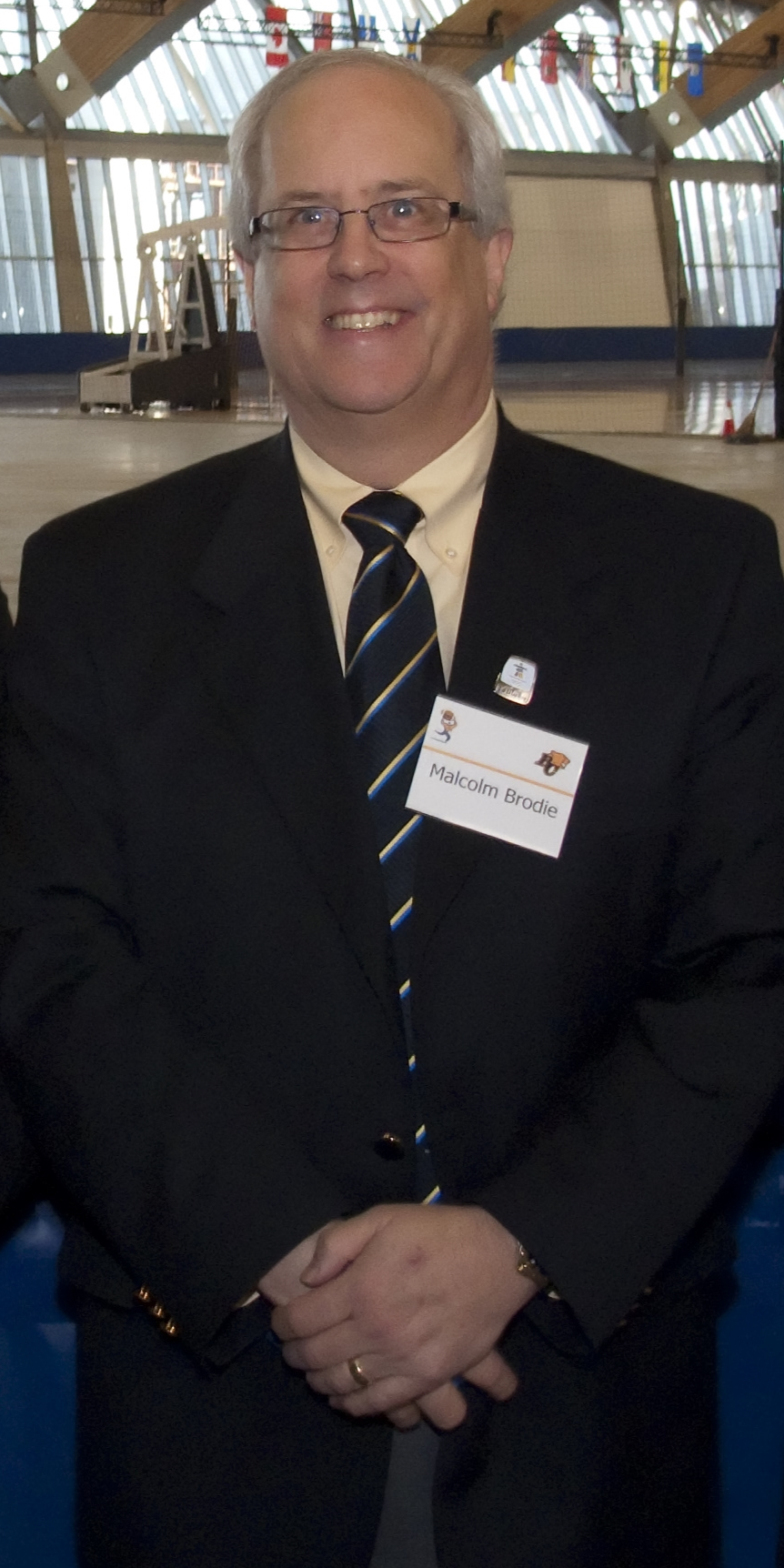 Mayor Malcolm Brodie of the City of Richmond, BC, Canada at the Olympic Speedskating Oval. (February 2009)